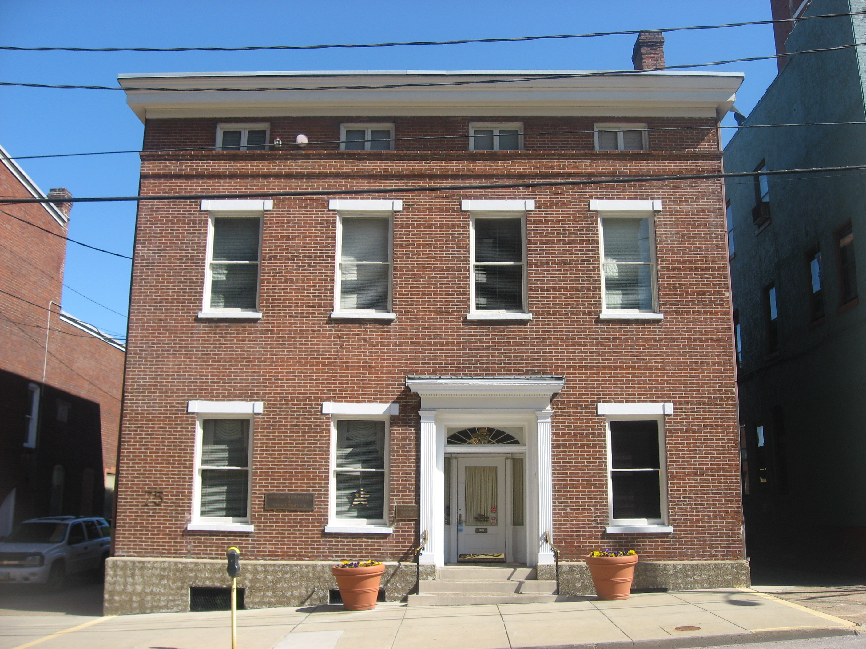 Front of the Charles W. Russell House, located at 75 Twelfth Street in Wheeling, West Virginia, United States. Built in 1848, it is listed on the National Register of Historic Places, and it is part of a Register-listed historic district, the East Wheeling Historic District.